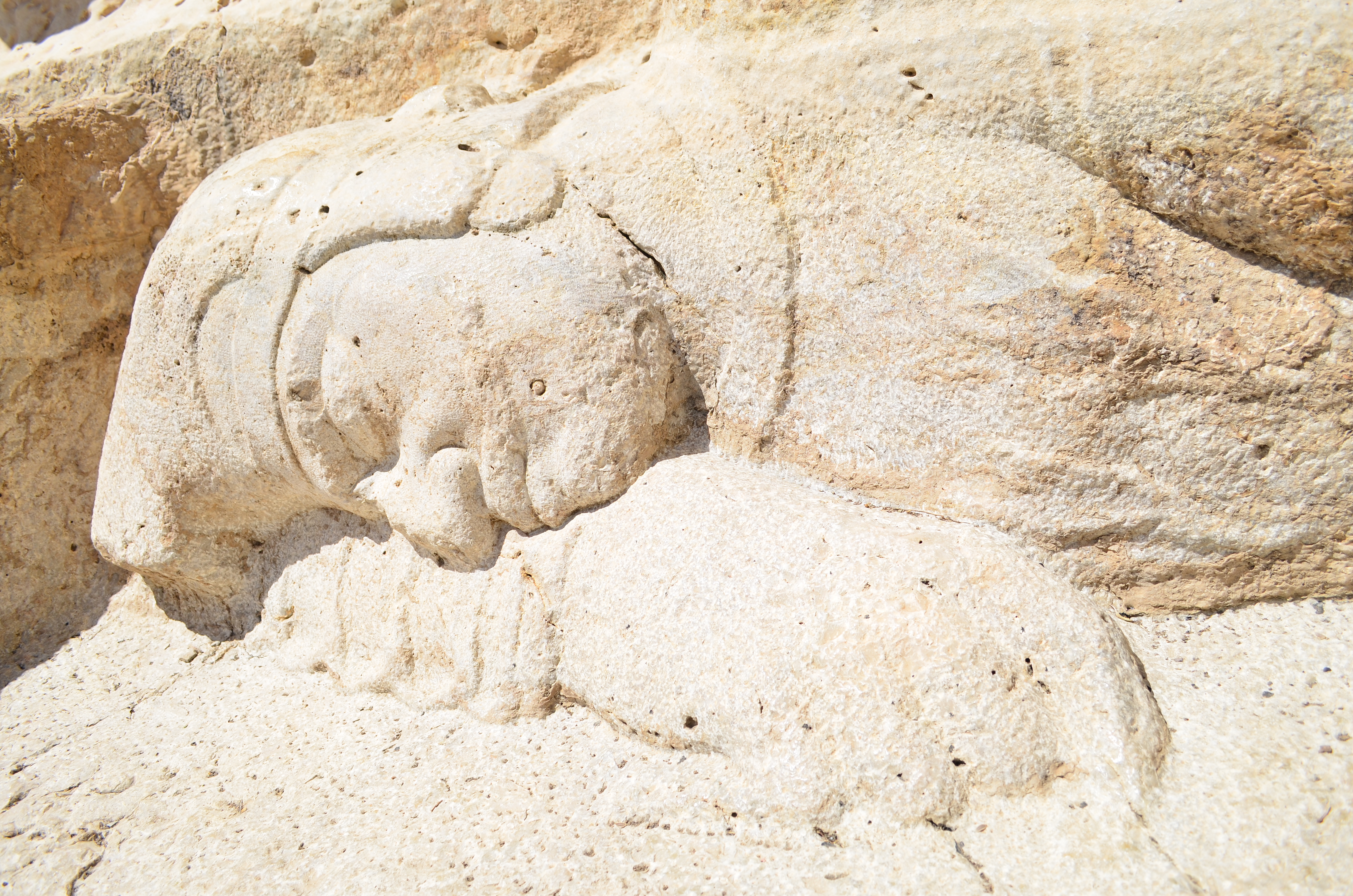 The rock relief of Bahram I, in Tange Chogan